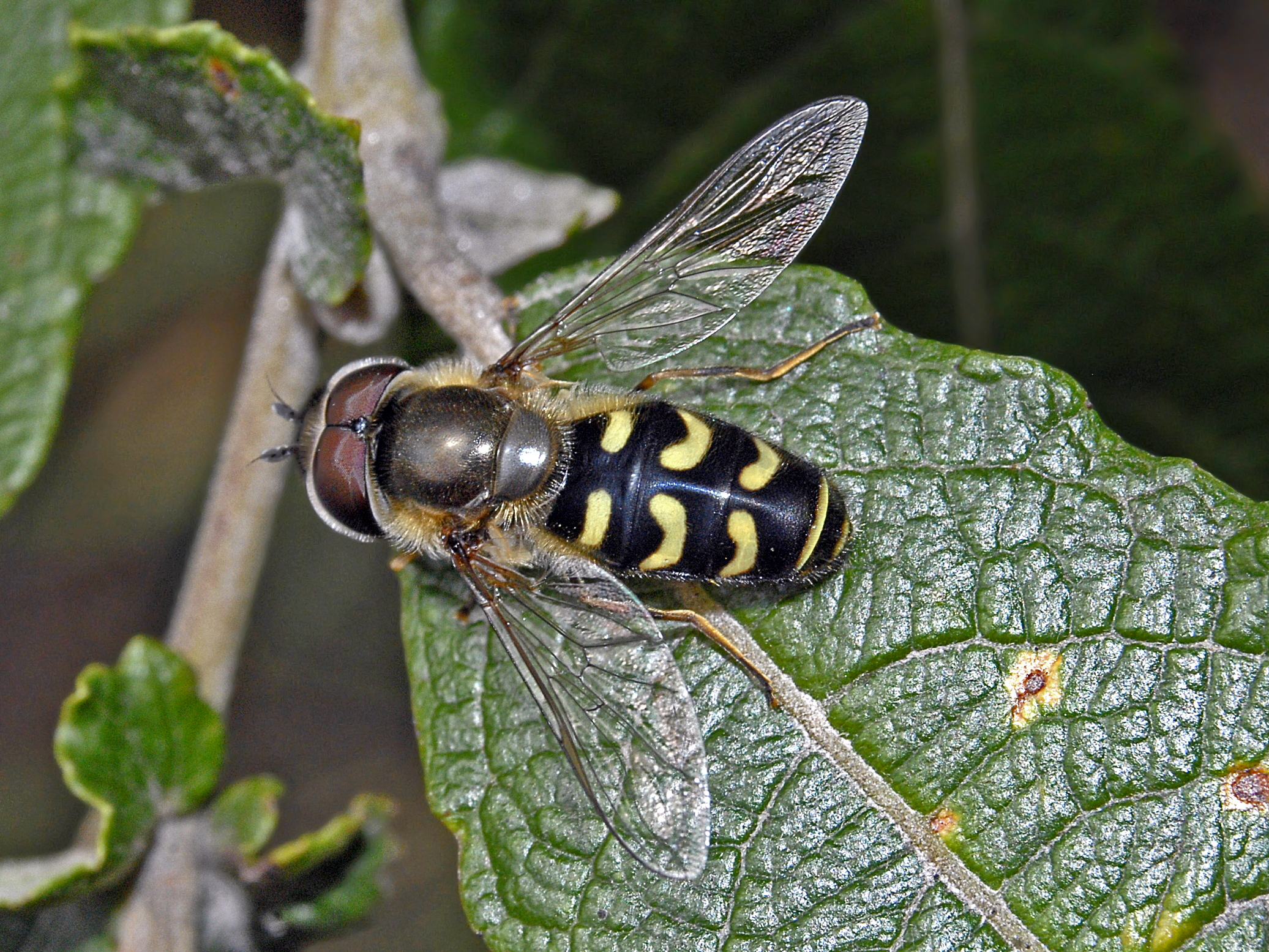 Scaeva selenitica, male. Val Veny, Aosta, Italy